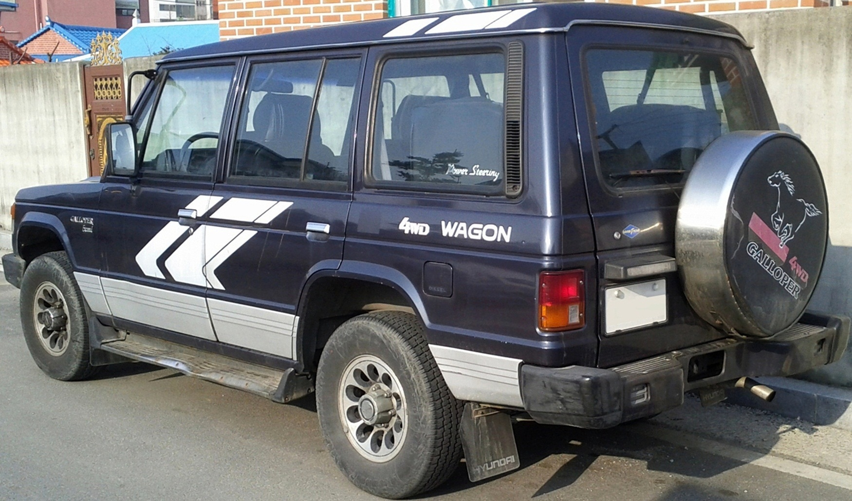 Hyundai Galloper